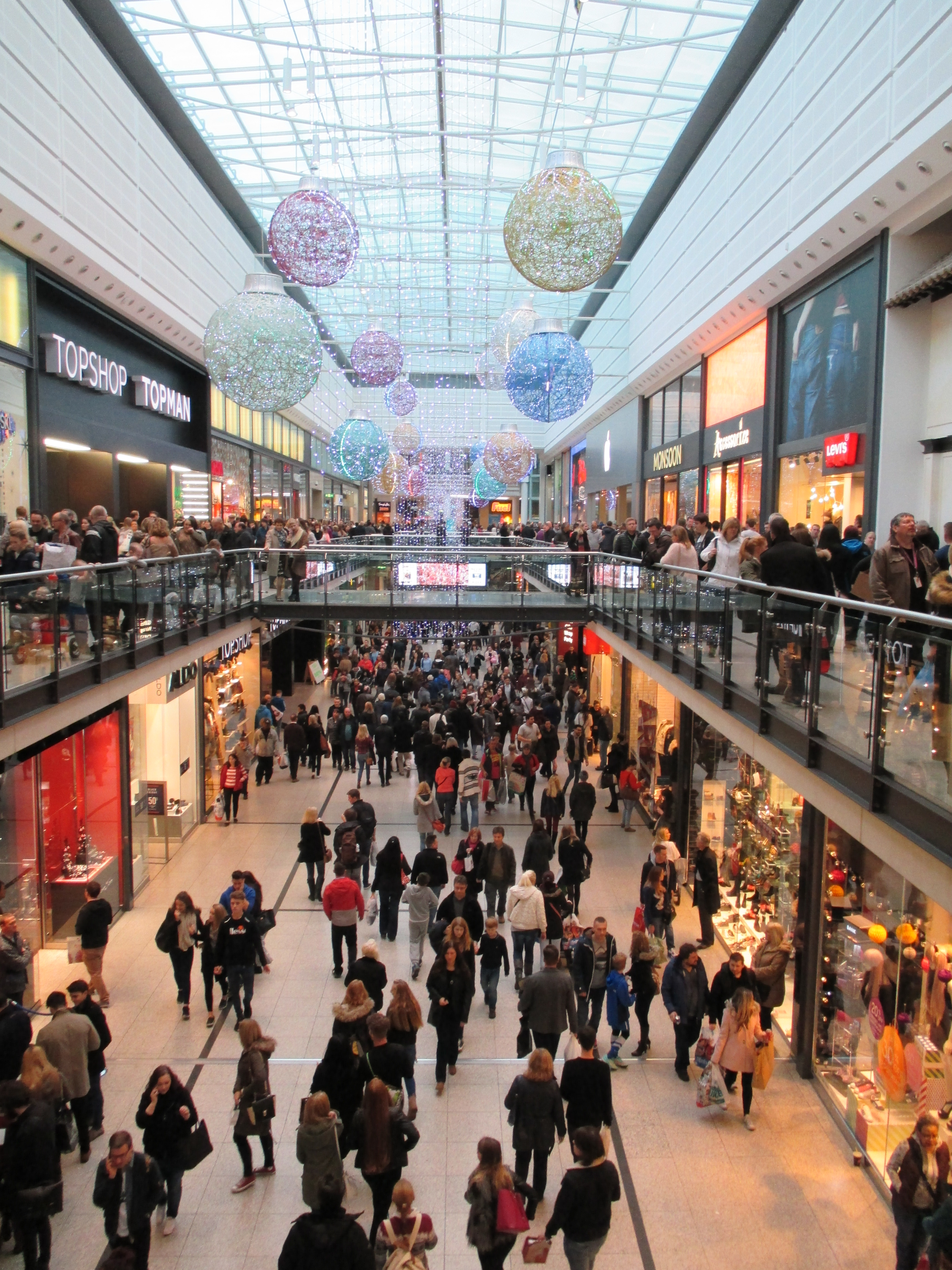 Inside The Arndale Centre, Manchester.